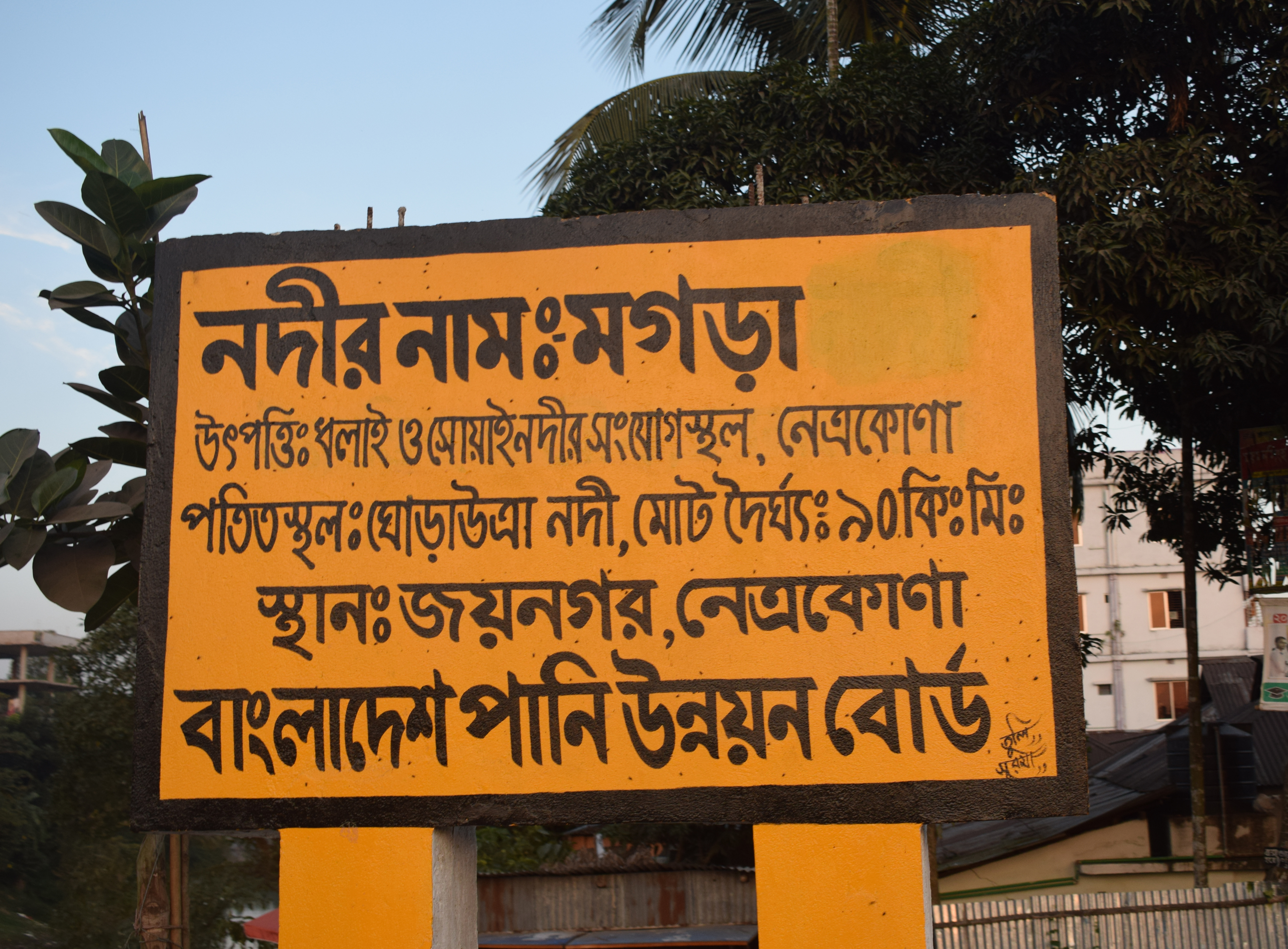 Mogra River Source signboard at Joynagar, Netrokona, Bangladesh.